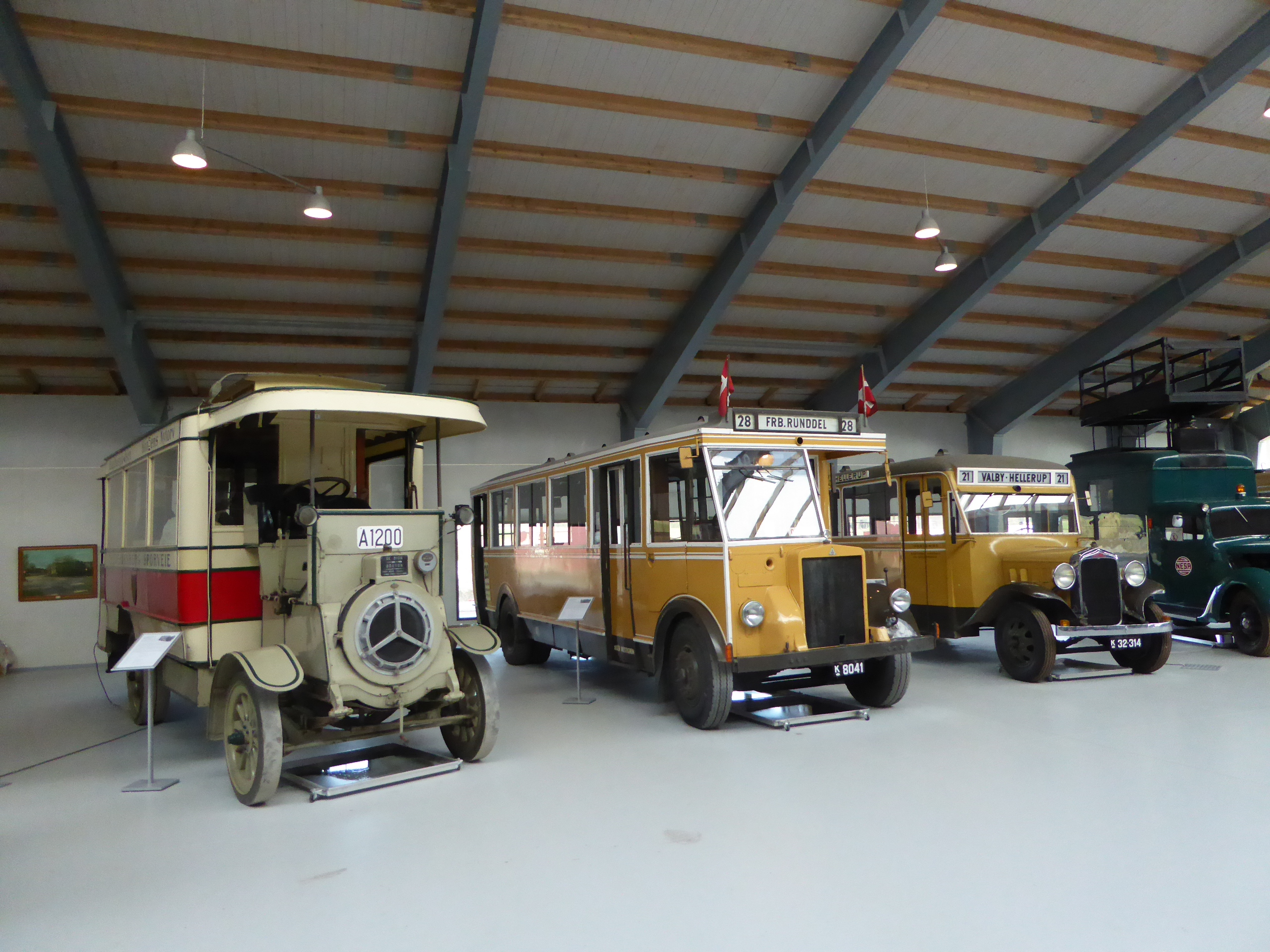 Old buses from Copenhagen, FS 1 build in 1913, KS 41 build in 1933 and KS 314 build in 1934 in the bus exhibition hall at Sporvejsmuseet Skjoldenæsholm in Denmark.